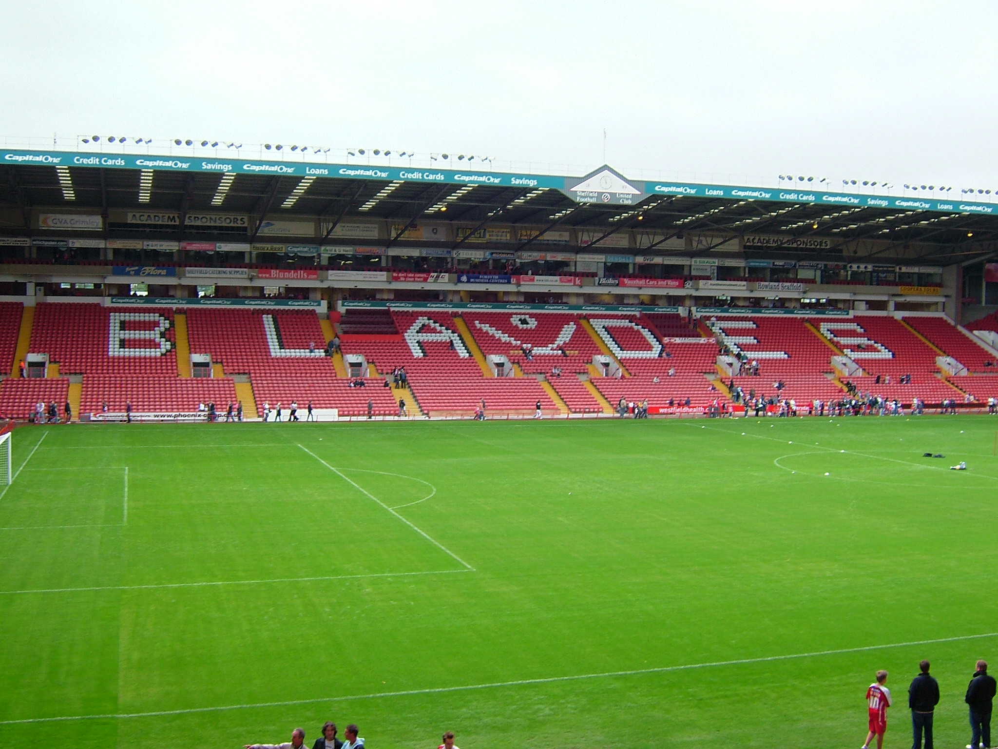 author:Lewis Skinner source:self made